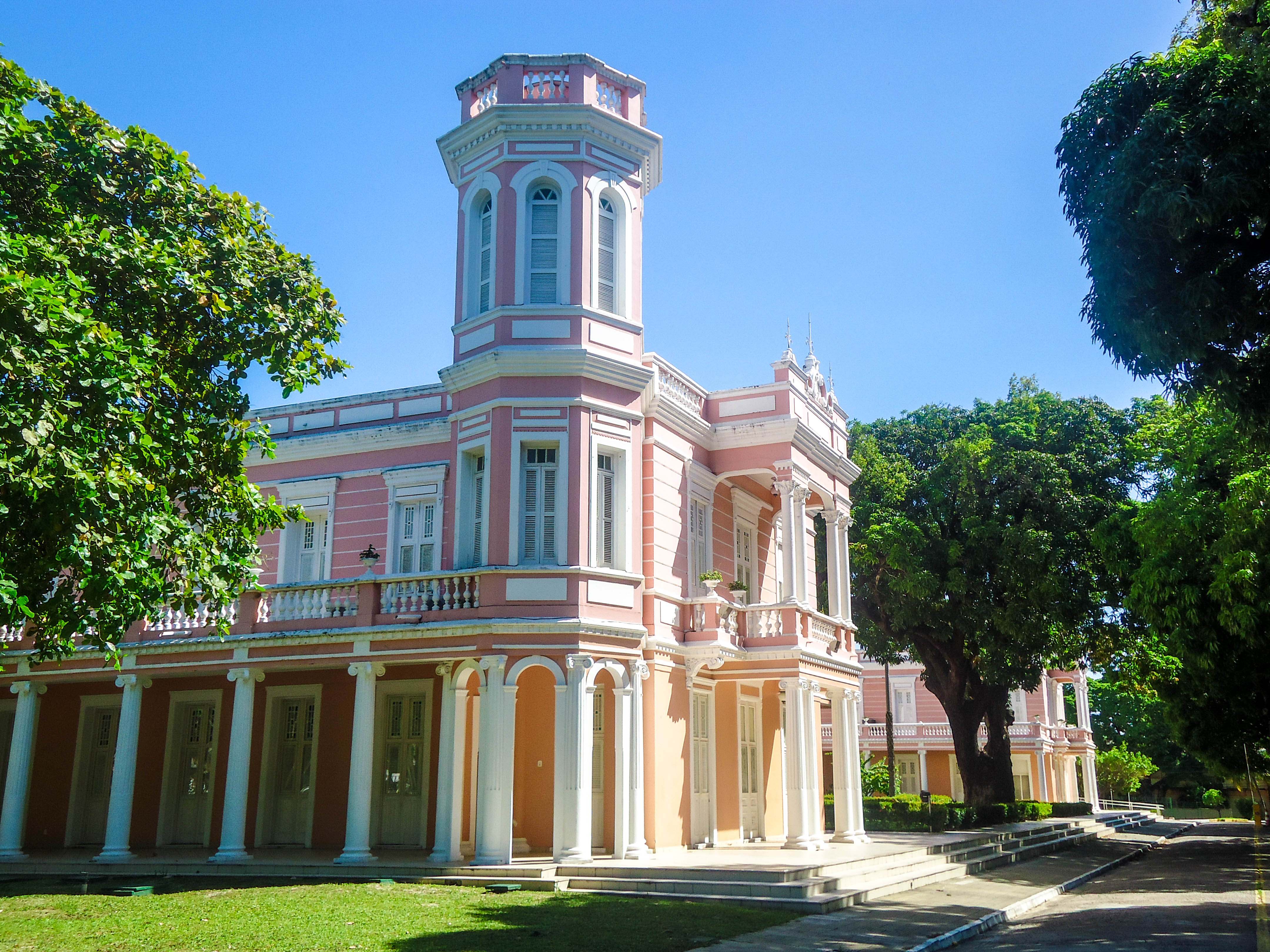 Federal University of Ceará, Brazil. Rectory building.